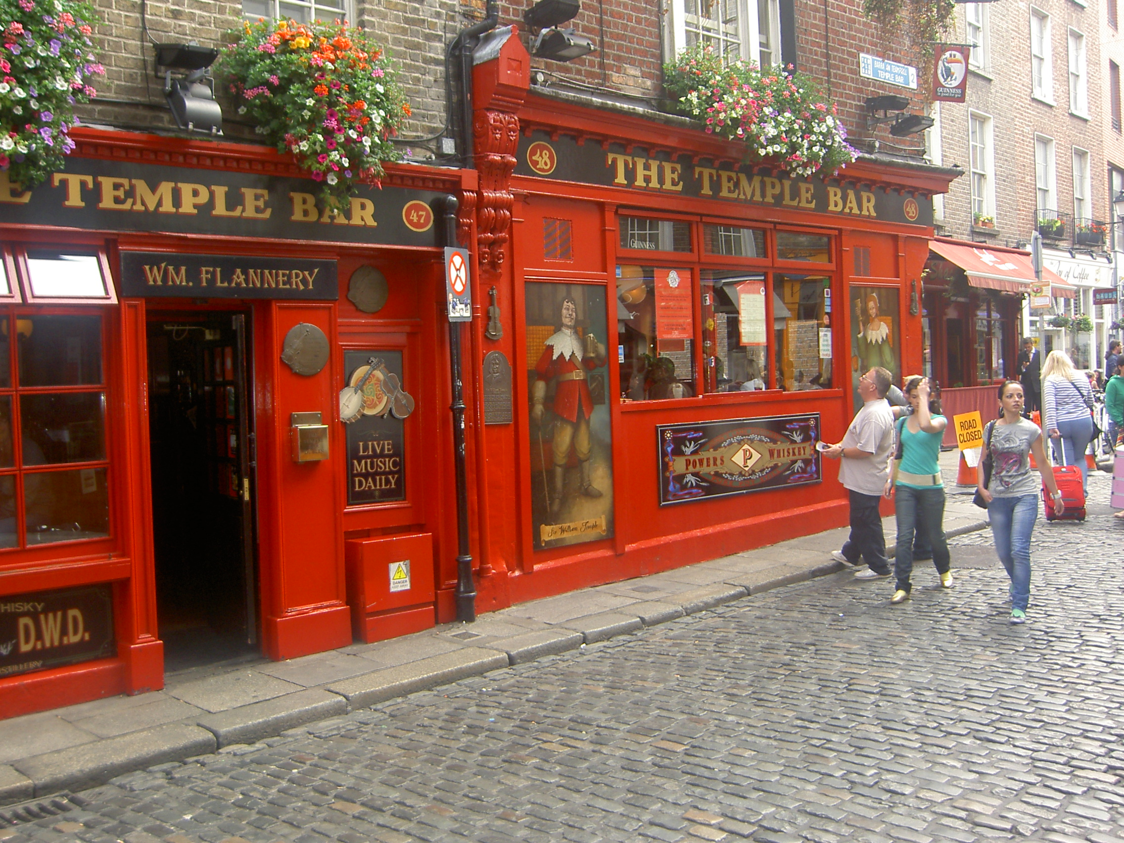 The Temple Bar pub in Dublin, Ireland.